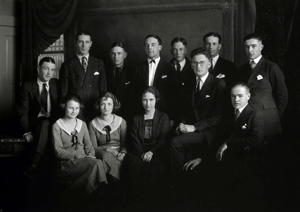 Gary Cooper at Grinnell College in Iowa, 1922